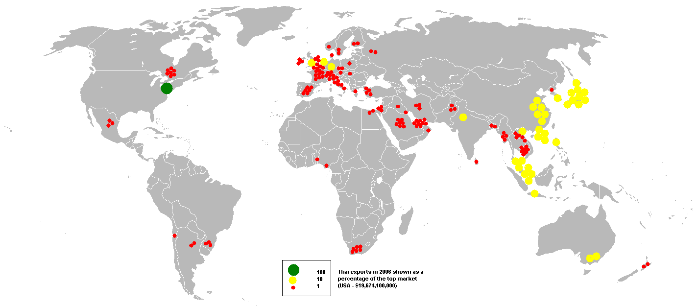 This bubble map shows the global distribution of Thai exports in 2006 as a percentage of the top market (USA - $19,674,100,000). This map is consistent with incomplete set of data too as long as the top producer is known. It resolves the accessibility issues faced by colour-coded maps that may not be properly rendered in old computer screens. Data was extracted on 23rd September 2007 from Based on :Image:BlankMap-World.png